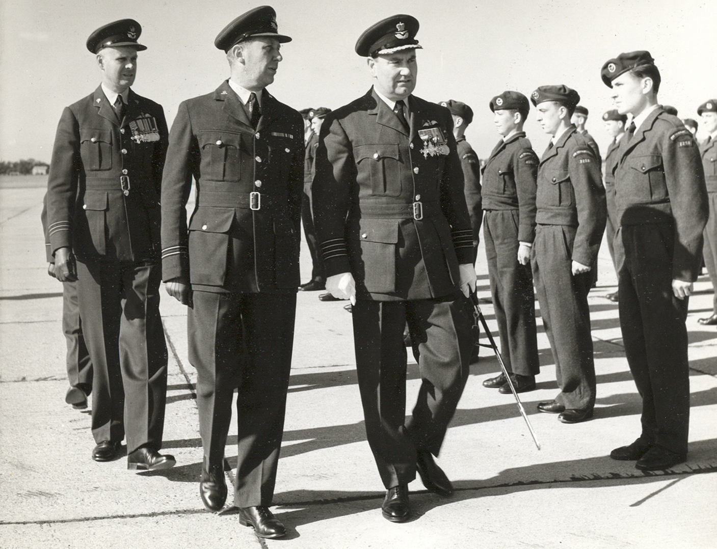 Wing Commander Peter Stanley James inspecting cadets at the Northamptonshire and Leicestershire Wing Parade, RAF Wittering.